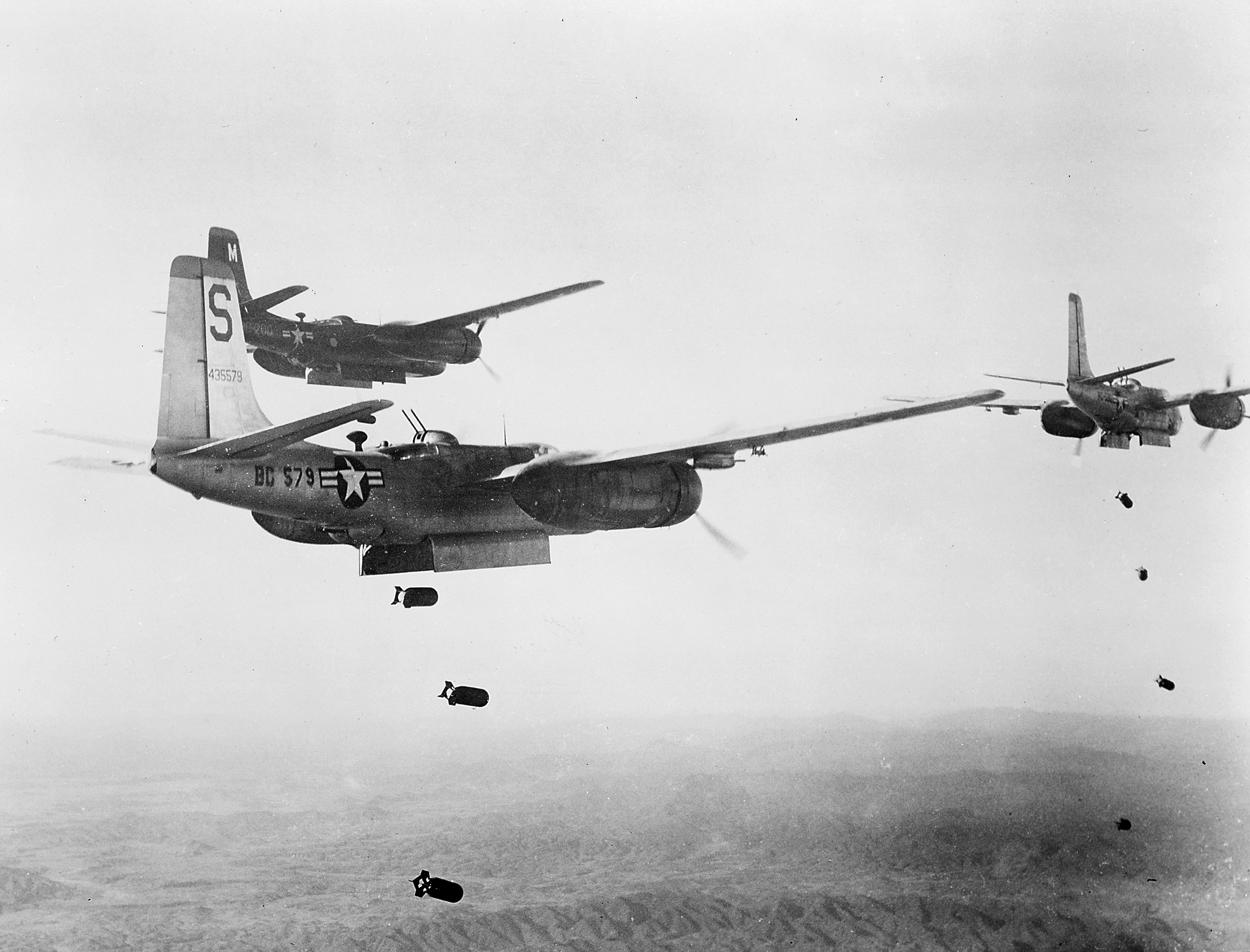 Title:USAF Douglas B-26 Invaders bombing a target in North Korea, 18 October 1951. Original caption: "U.S. Air Force B-26 (Invader) light bombers release quarter ton demolition bombs in a strike over North Korea. The B-26 has been in action against the North Korean and Chinese Communist forces since the out break of Korean hostilities. ca. 18 October 1951"